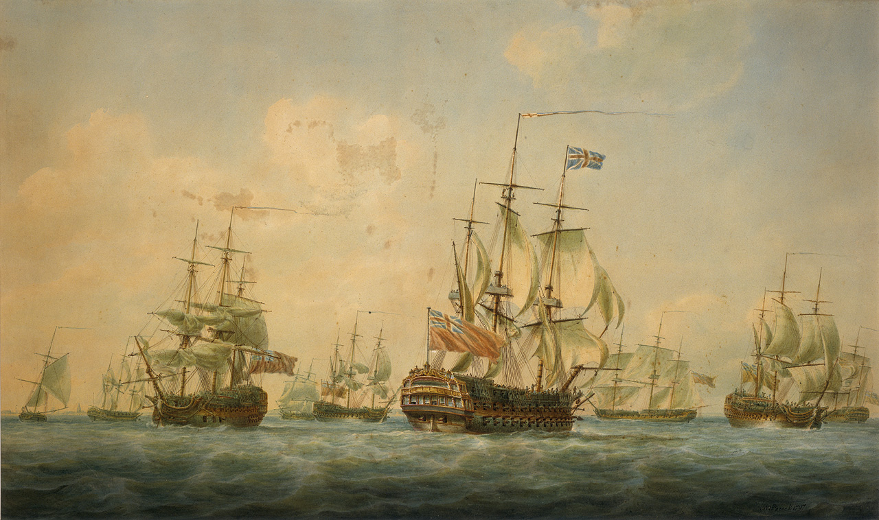 Ships at Spithead 1797. Sceptre. King George, Hudson's Bay Company. Rodney, East Indiaman. Ganges. Perseverance. General Goddard, East Indiaman; watercolour. Notes: Seahorse (1782), King George (1781), Rodney (fl.1782), Major (fl.1781), Ganges (1782), General Goddard (fl.1782), Perseverance (1781), Sceptre (1781) King George (1781). Hudson's Bay Company (HBC). ‘King George’, launched 1781, is listed in the Register as ship-rigged, 290 tons, and built “River” (i.e. the Thames).